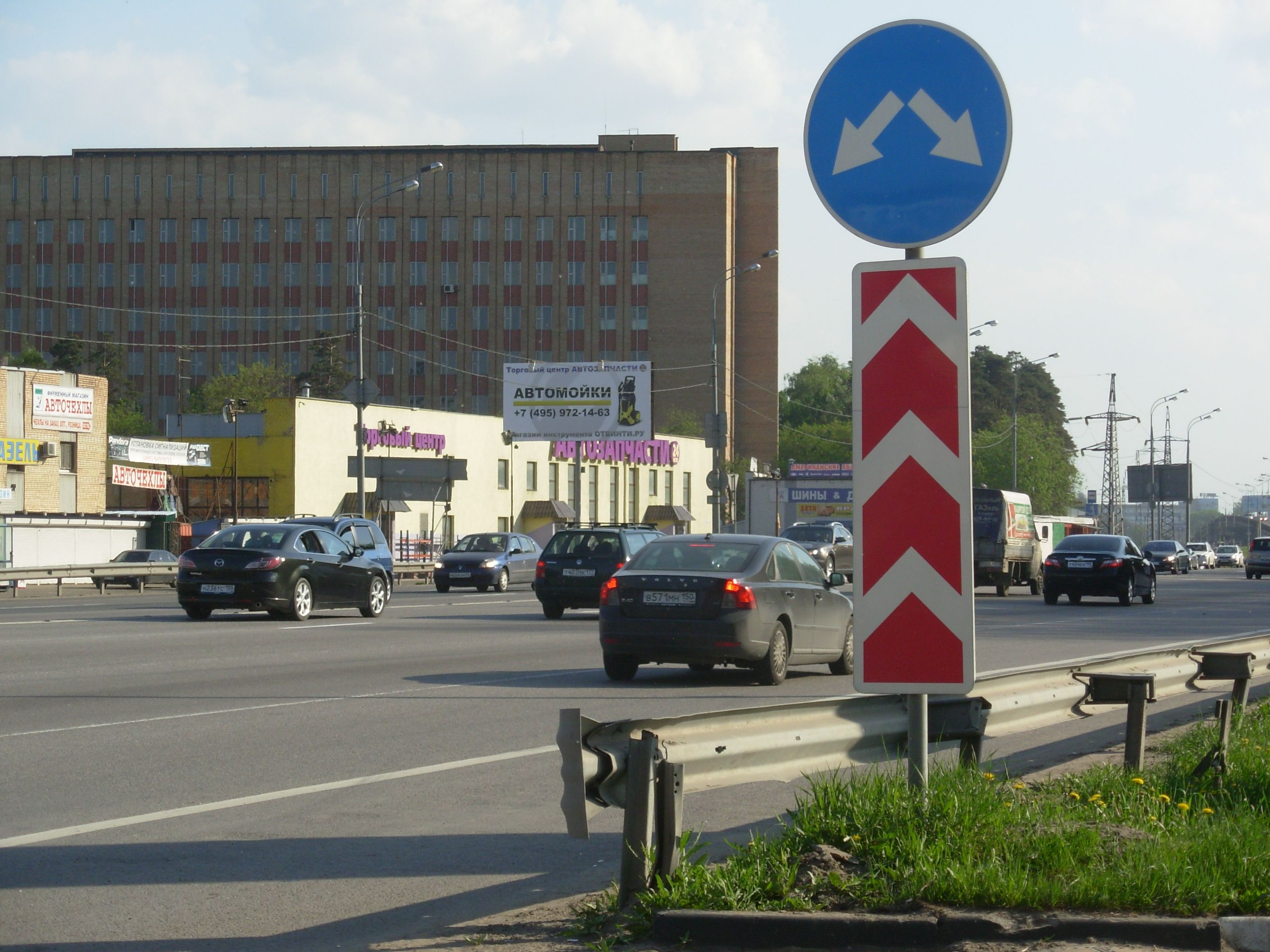 street